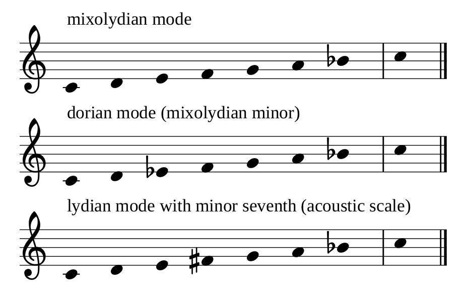 Three musical scales commonly used in the music of the Northeast Region of Brazil.